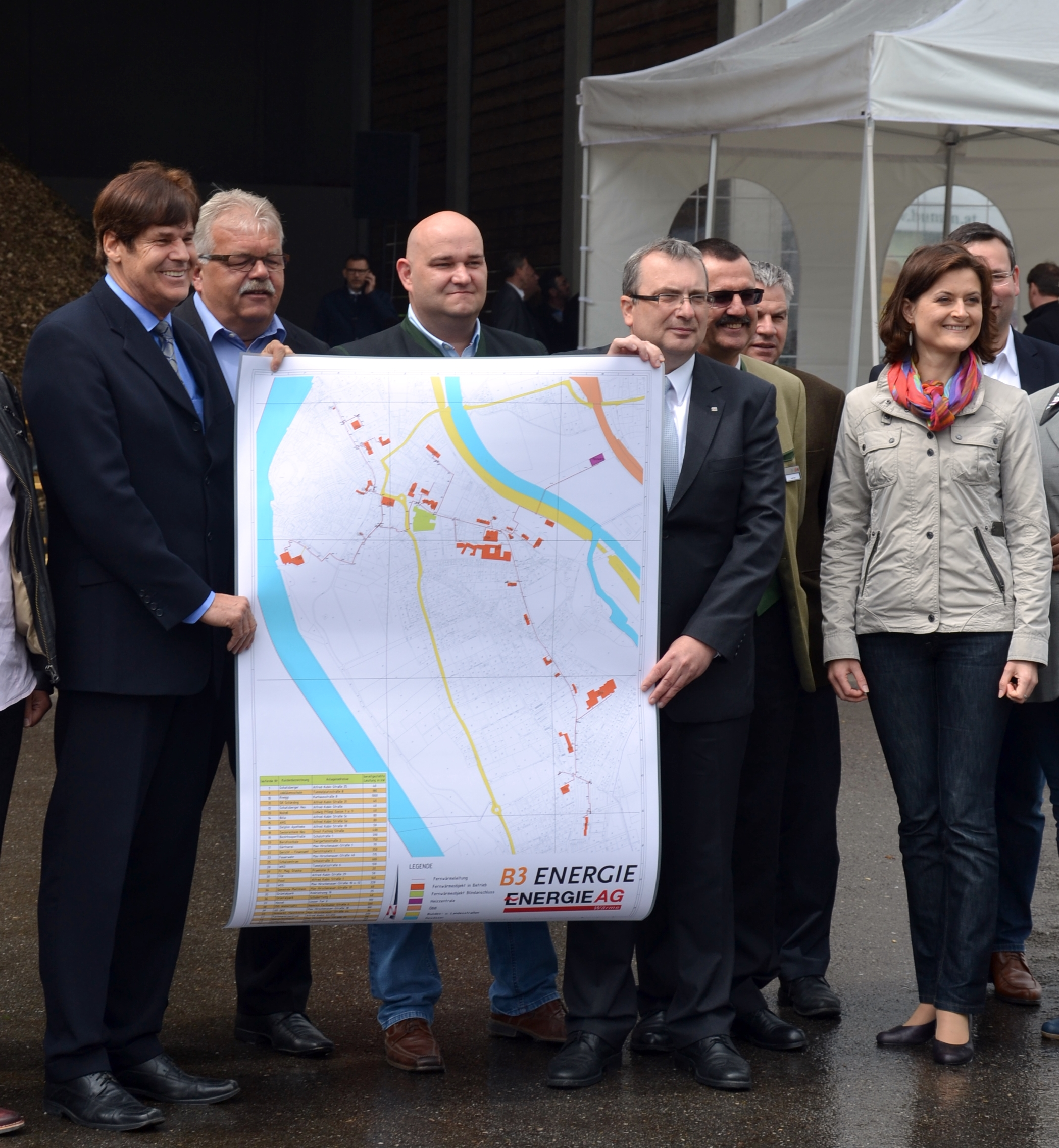 Offical opening of the biomass heating plant Schärding in Upper Austria with the head of the town Ing. Franz Xaver Angerer, member of the Austrian federal council Werner Stadler and the member of Upper Austrian parliament Barbara Tausch